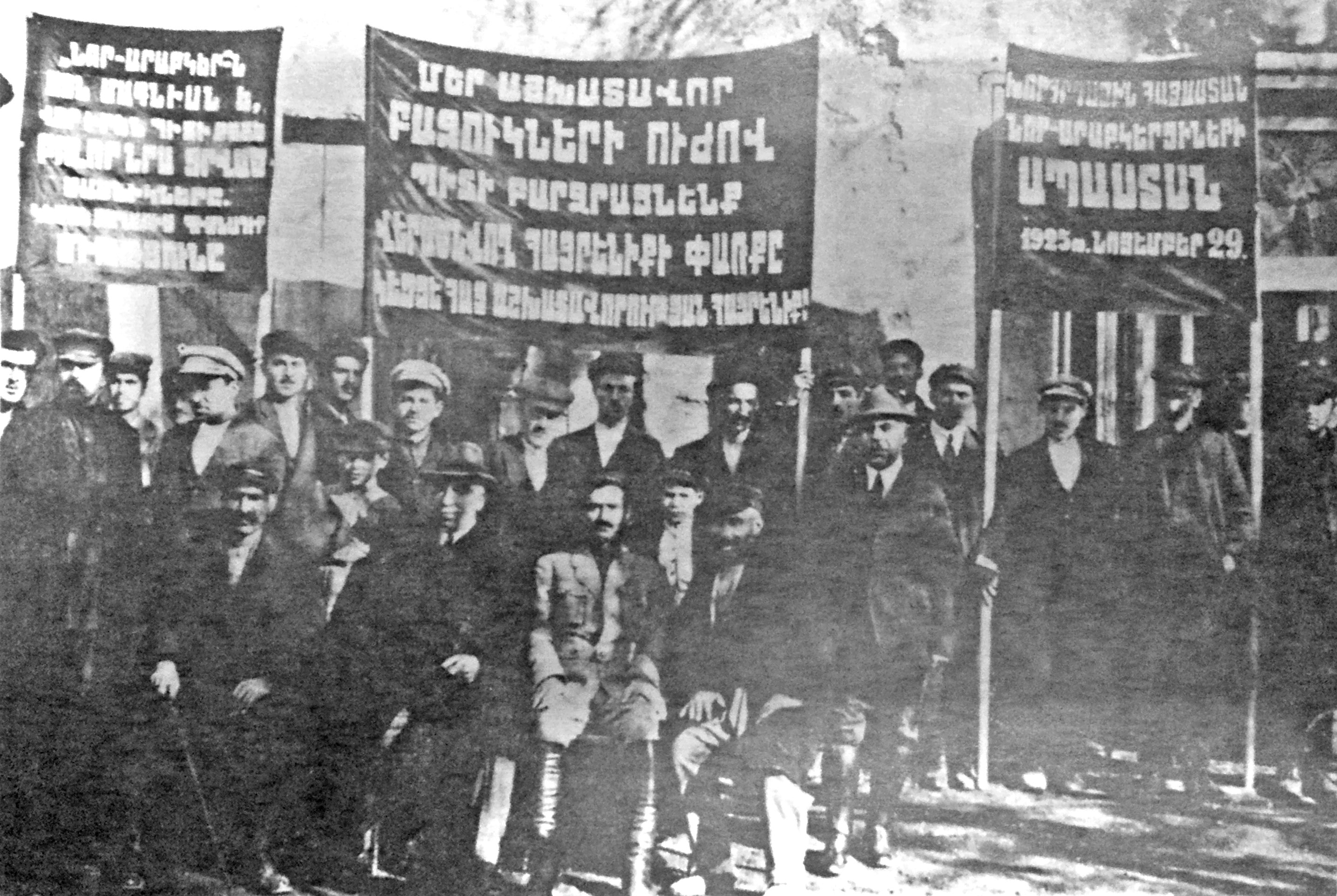 Foundation ceremony of Arabkir region, Yerevan